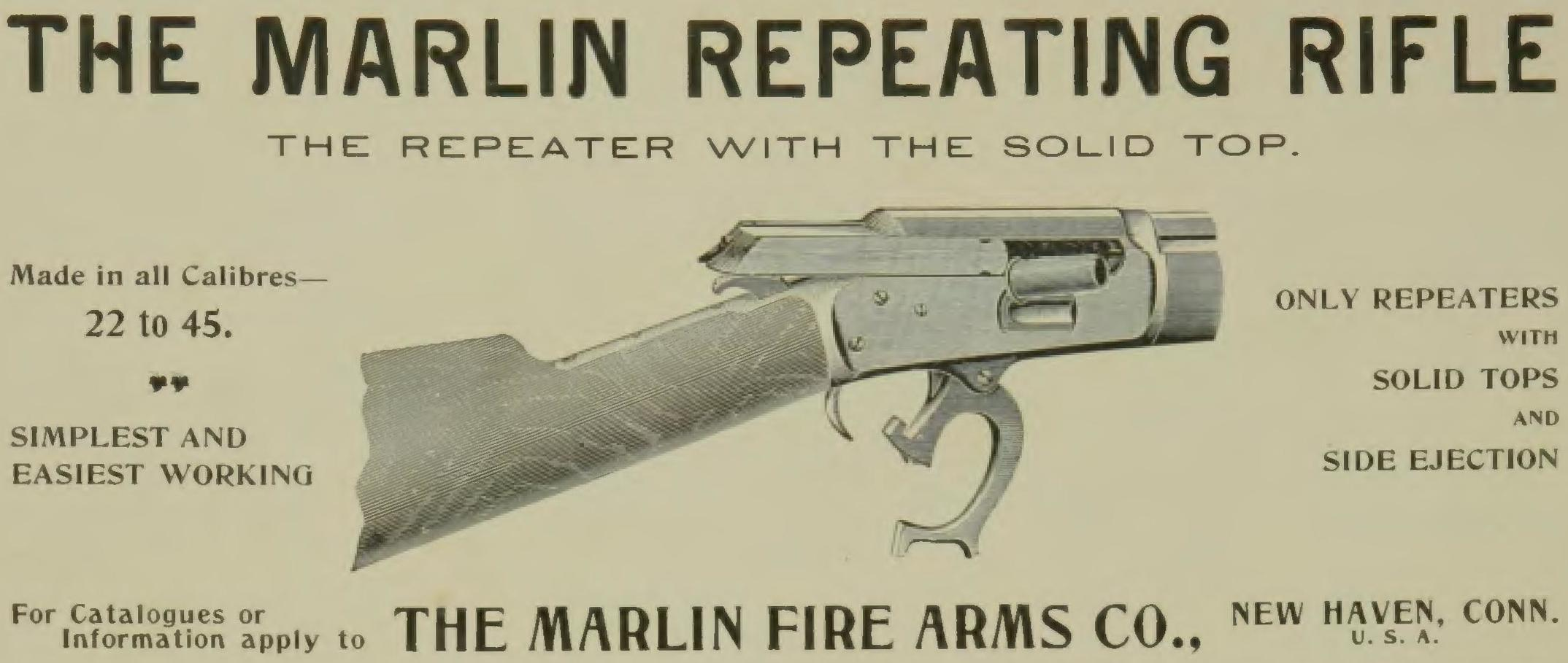 The Bugle — the school yearbook — for Virginia Agricultural and Mechanical College and Polytechnic Institute (now Virginia Tech) from 1897. Scanned by Virginia Tech. Cleaned up and re-processed by User:B. (The file from Virginia Tech was over 100 megabytes, which exceeds Commons' maximum size. I cleaned up all of the pages and ran them through a better compression to get the size down.)